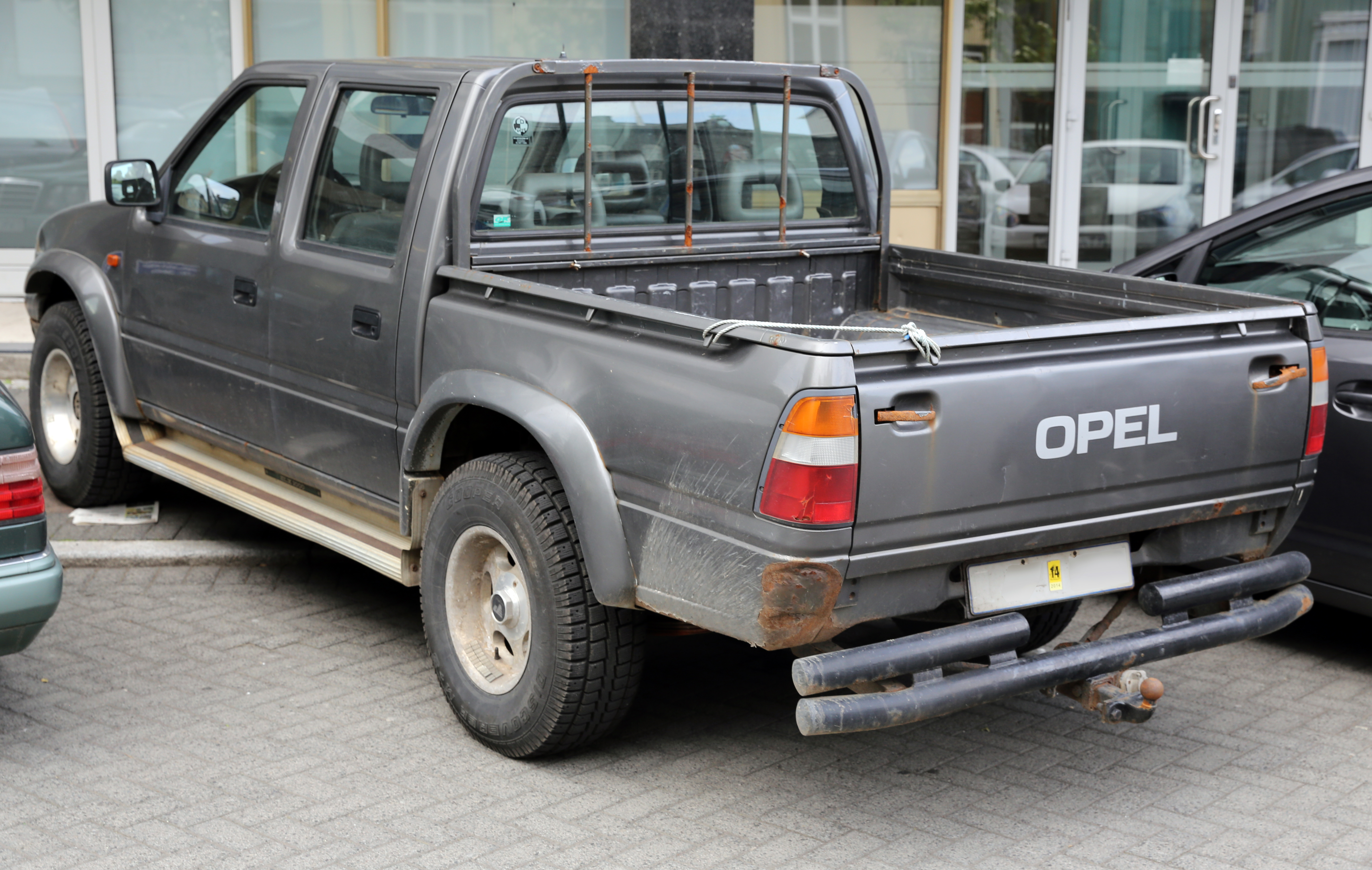 Rear view of 1997 Opel Campo 3.1 TD 4x4 Crew Cab (TFS69) in Iceland.